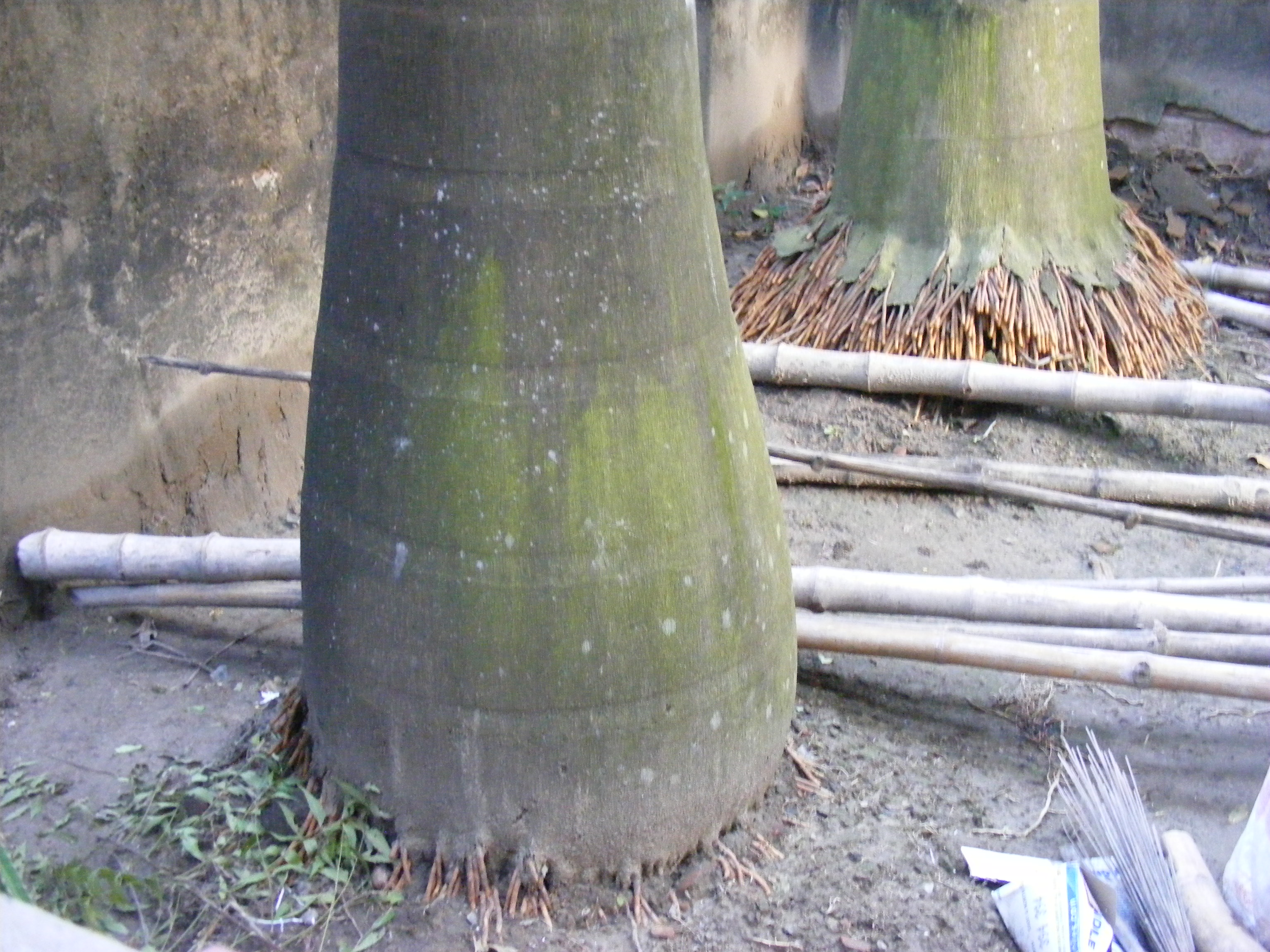 Royal Palm Trunk